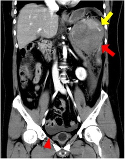 An accessory spleen or alternatively splenosis that has grown and developed a hematoma and intraperitoneal bleeding.